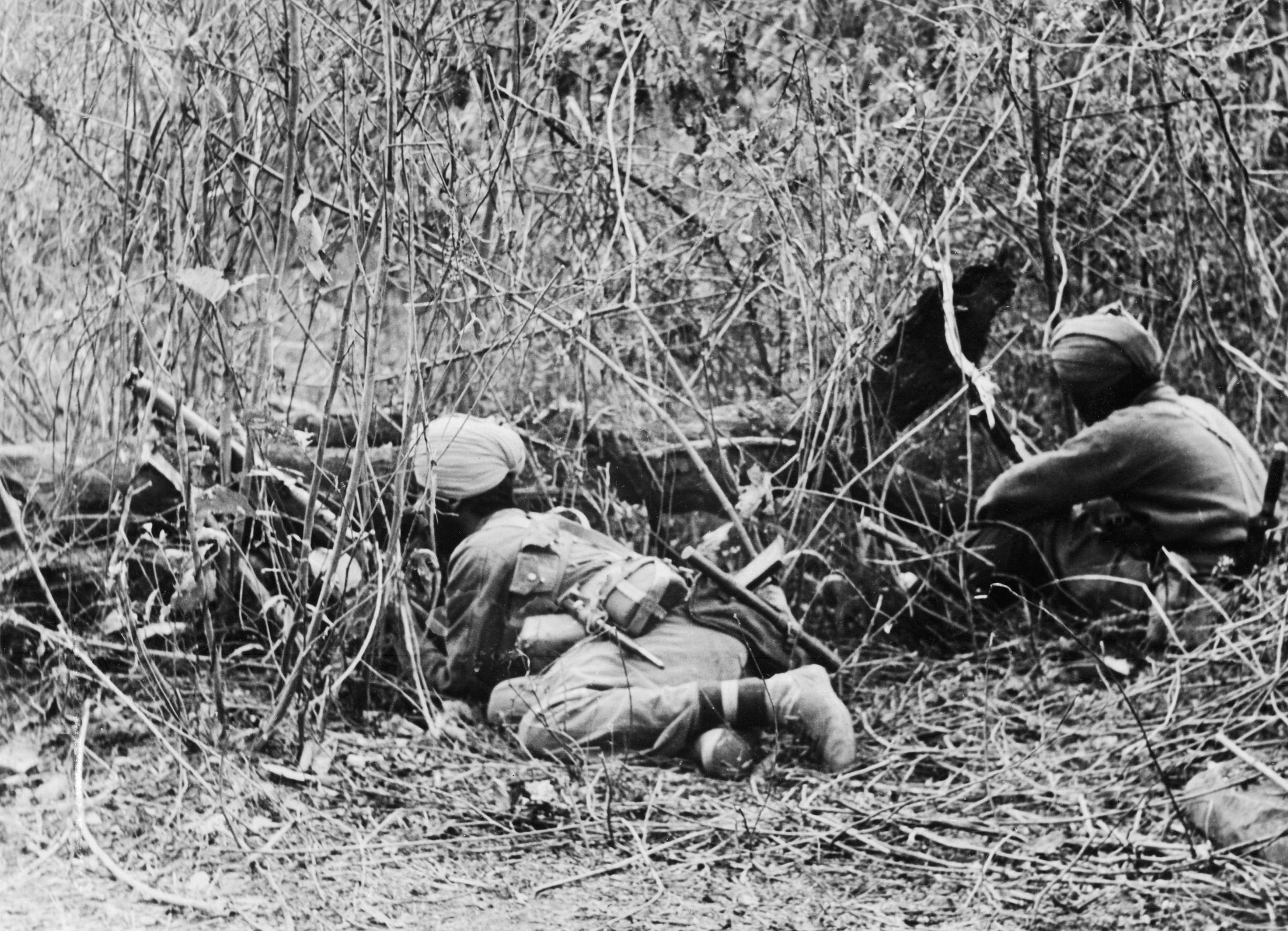 THE WAR IN THE FAR EAST: THE BURMA CAMPAIGN 1941-1945, The Arakan Campaign January 1943 - May 1945: Sikhs of the 7th Indian Division at an observation post in the Ngakyeduak Pass area during the fierce fighting which followed the Japanese offensive launched on 6 February 1944.